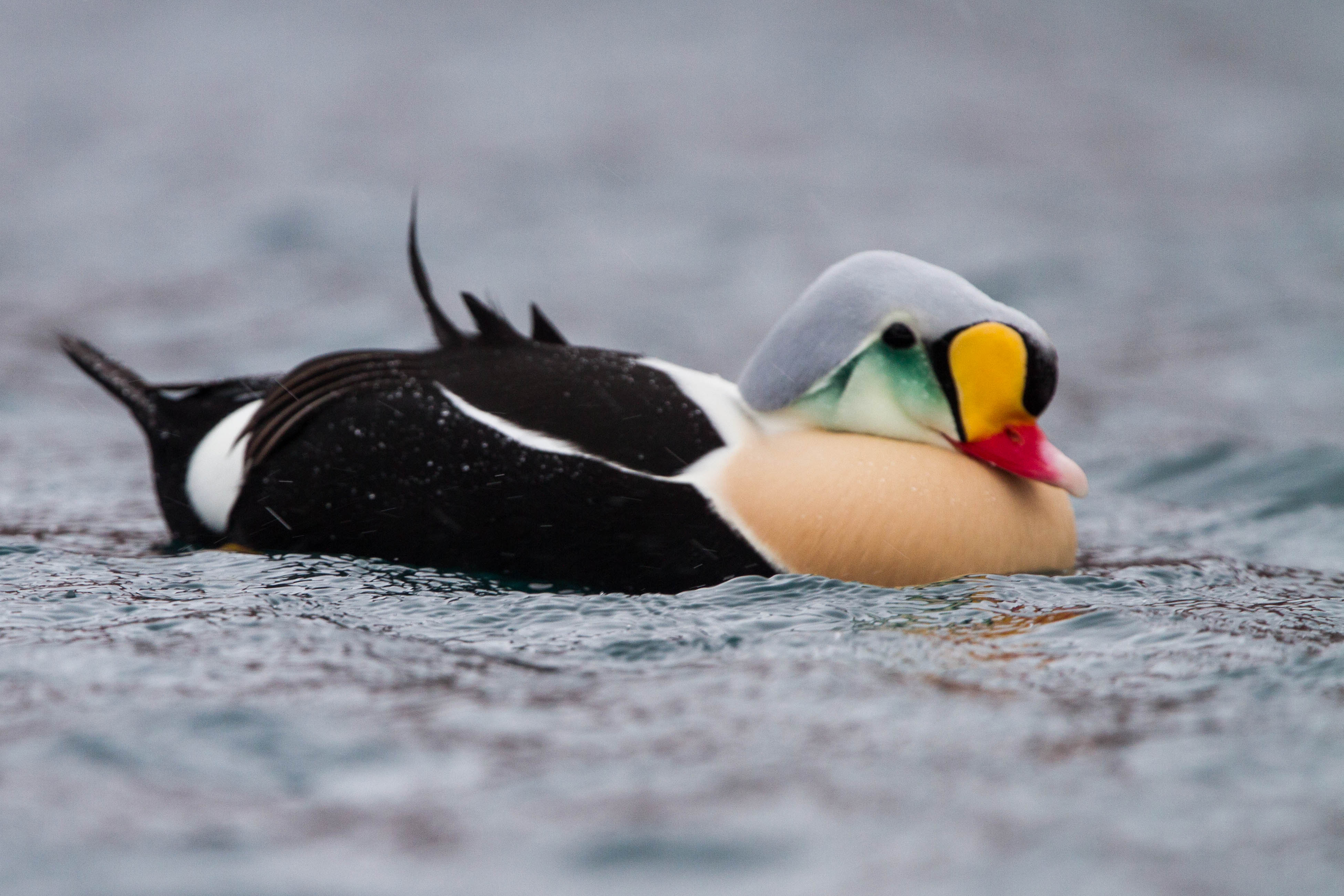 King Eider Somateria spectabilis, northern Norway